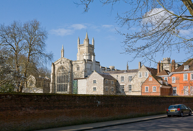 Winchester College Seen from College Street. The tower and window are of the chapel.